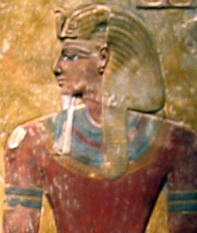 Cropped version of image of column fragment on Wikimedia Commons